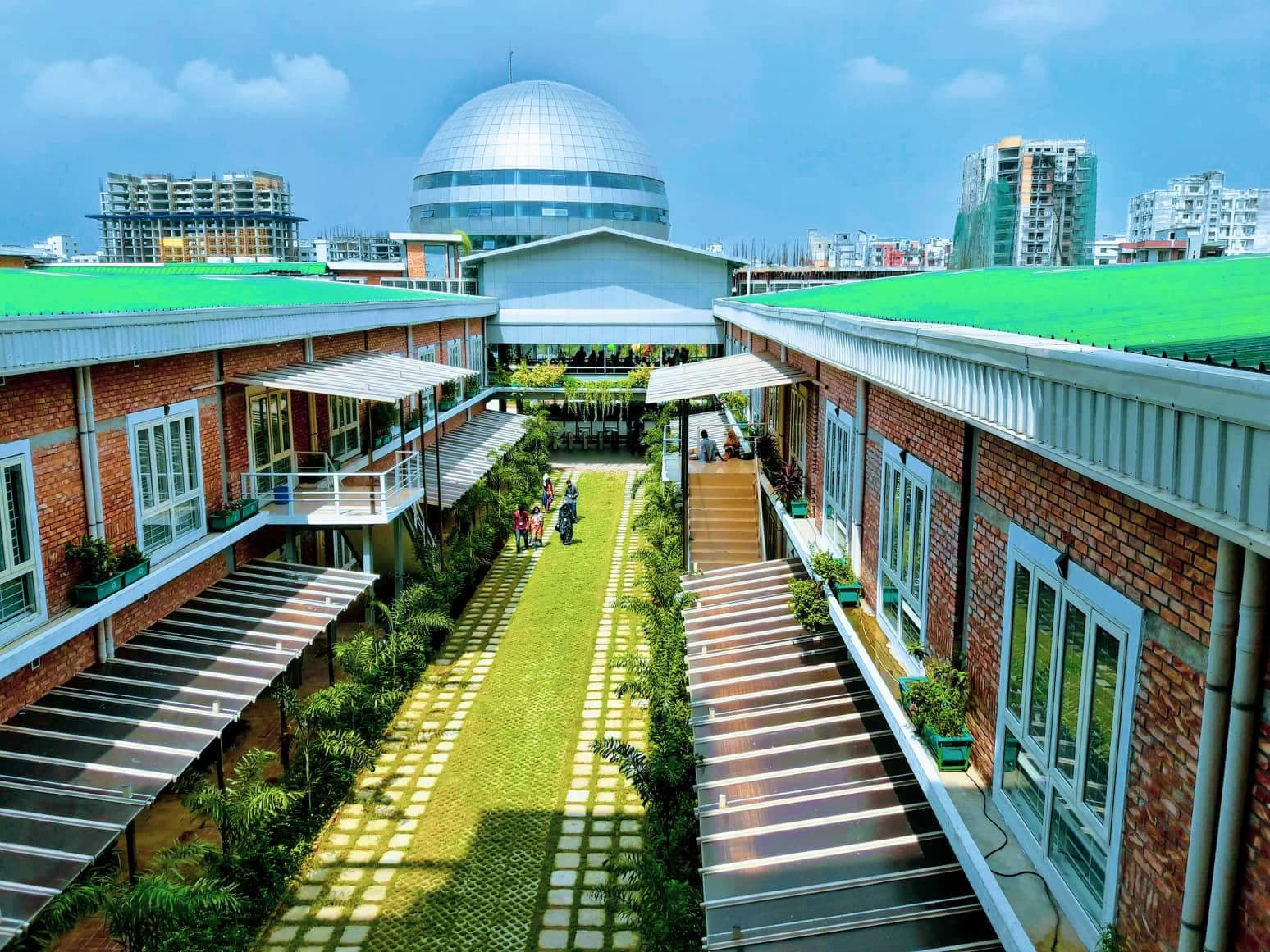 Between ANNEX 2 & 3